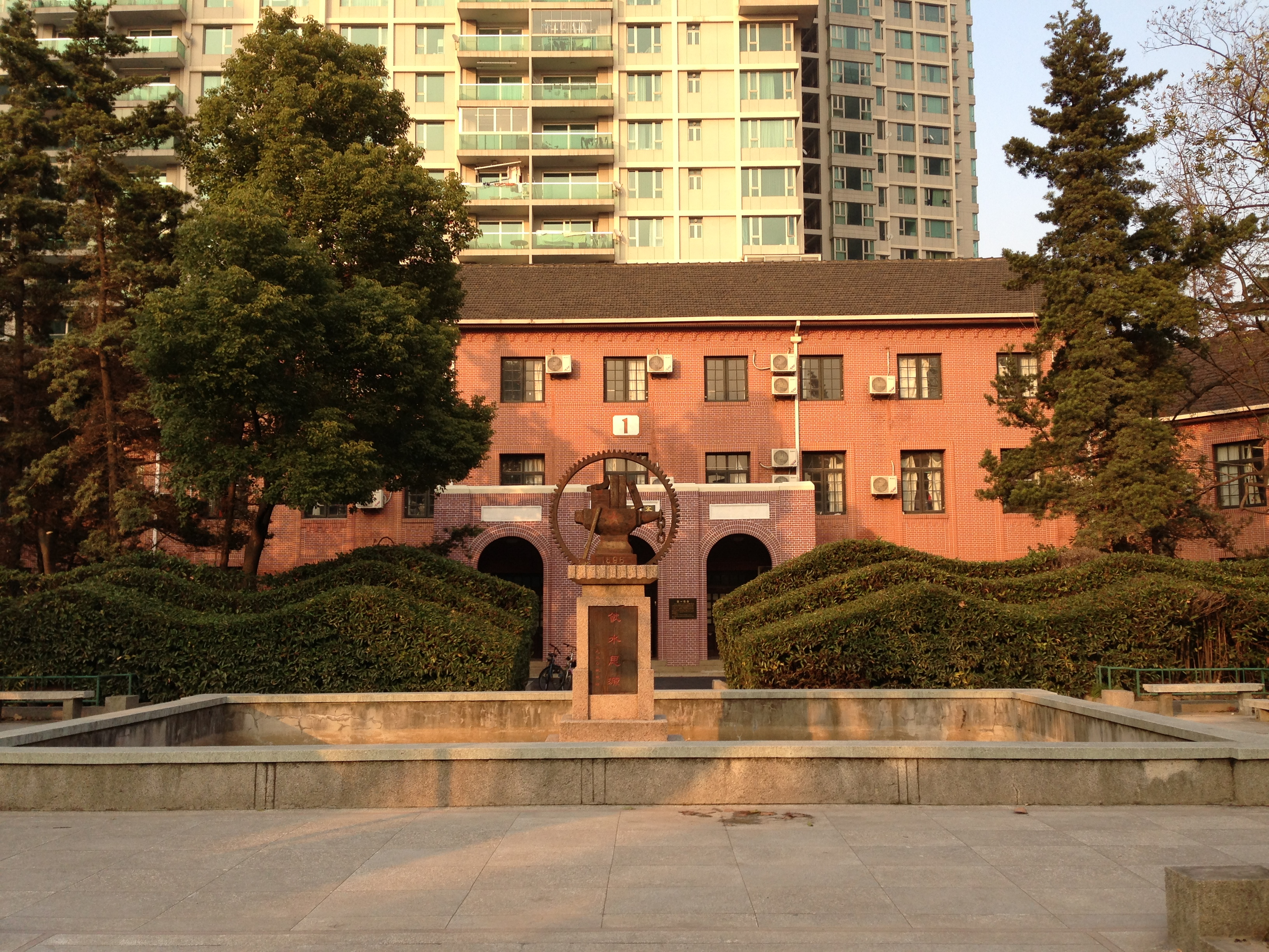 Zhixin Xizhai at Shanghai Jiao Tong University Xuhui Campus.